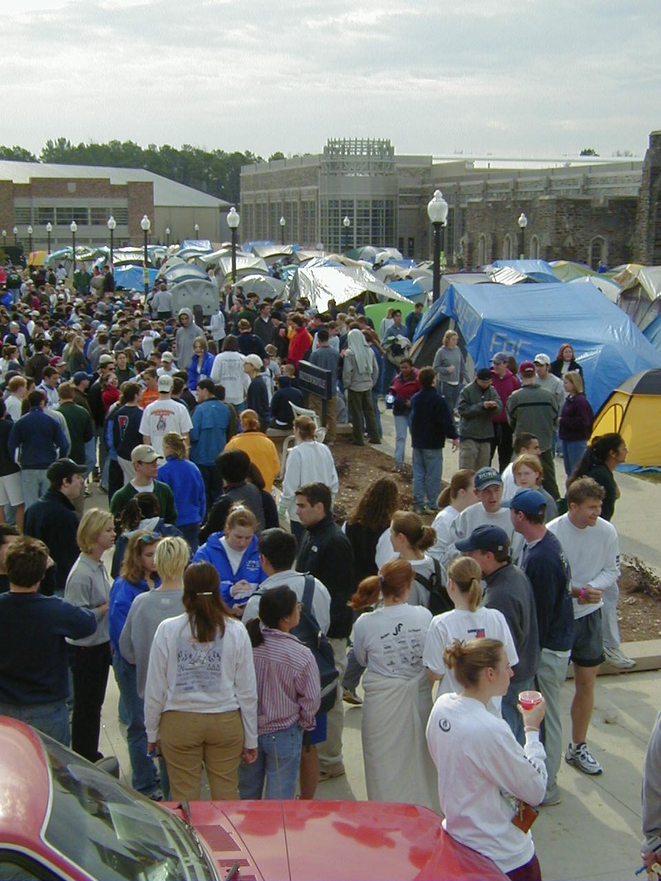 photo taken by me user debivort, February 2000